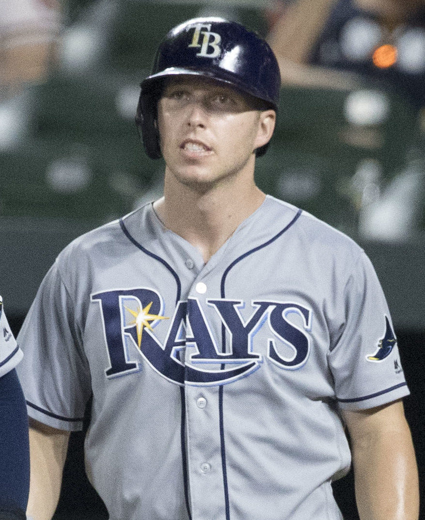 Rays at Orioles 6/30/17